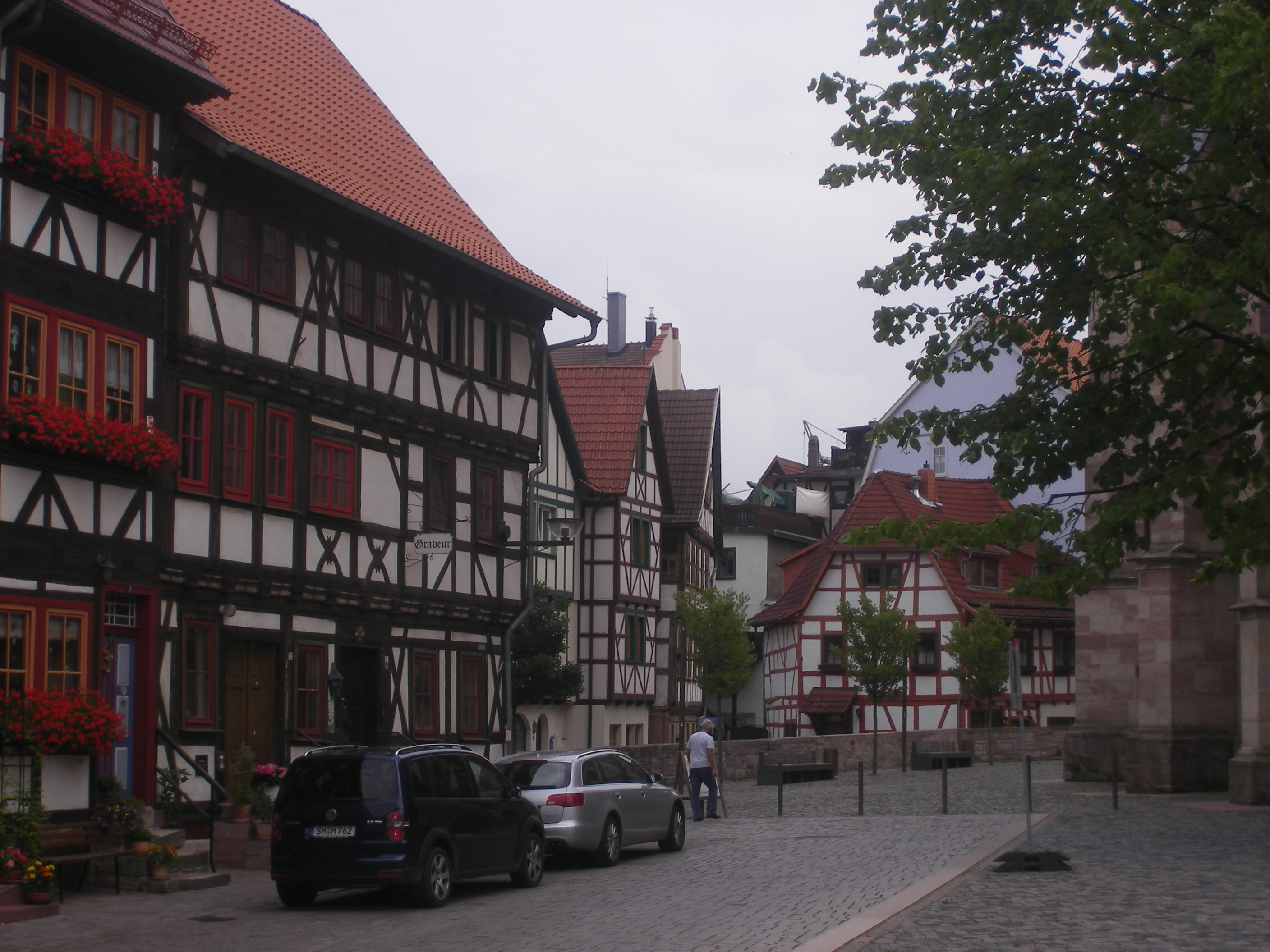 Timber framing houses near church in Schmalkalden/Thuringia